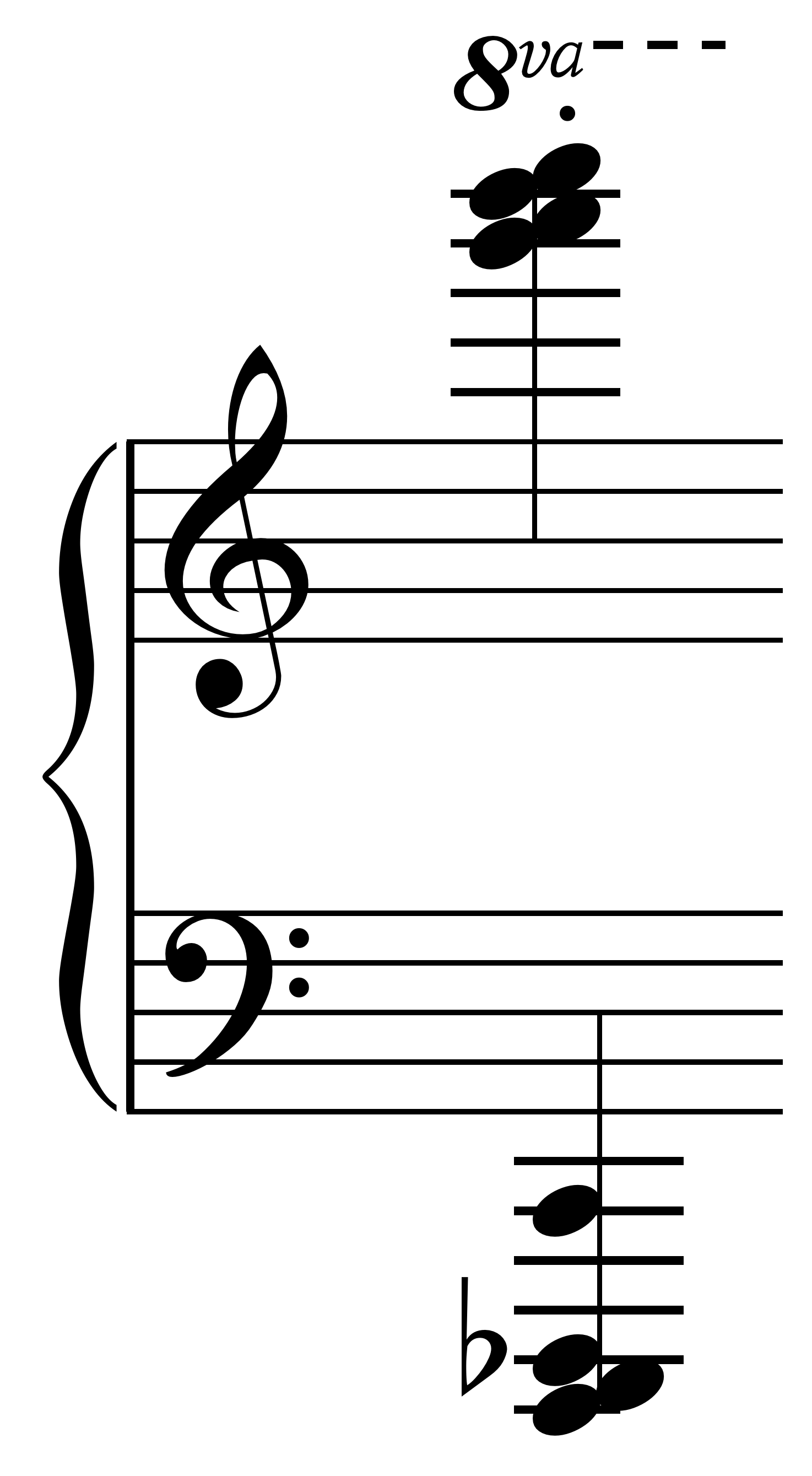 Last chord of Anger's Tintamarre (The Clangor of Bells) (1911).